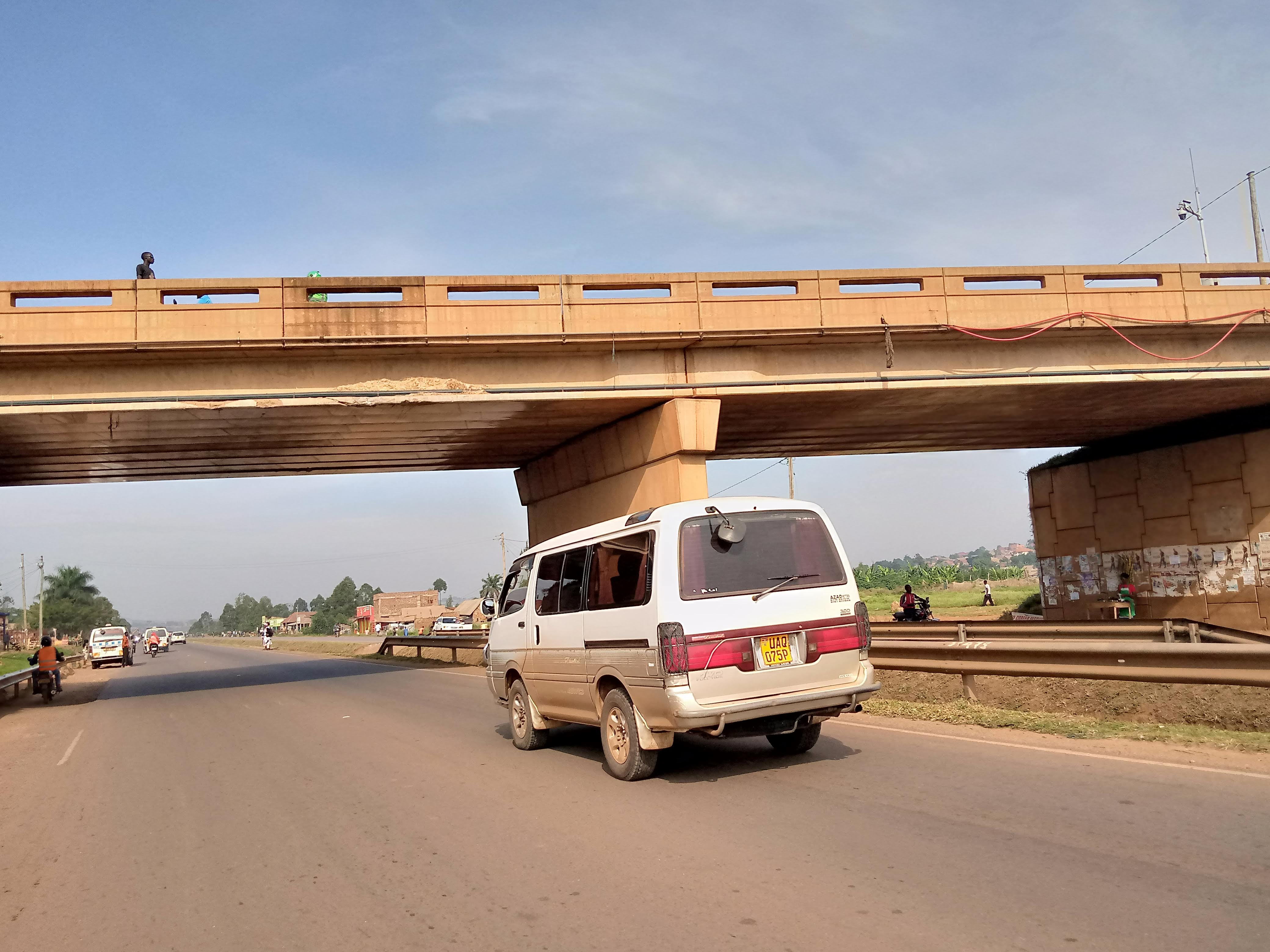 Taxi at the northern bypass in Kampala This is an image with the theme "Africa on the Move or Transport" from: Uganda